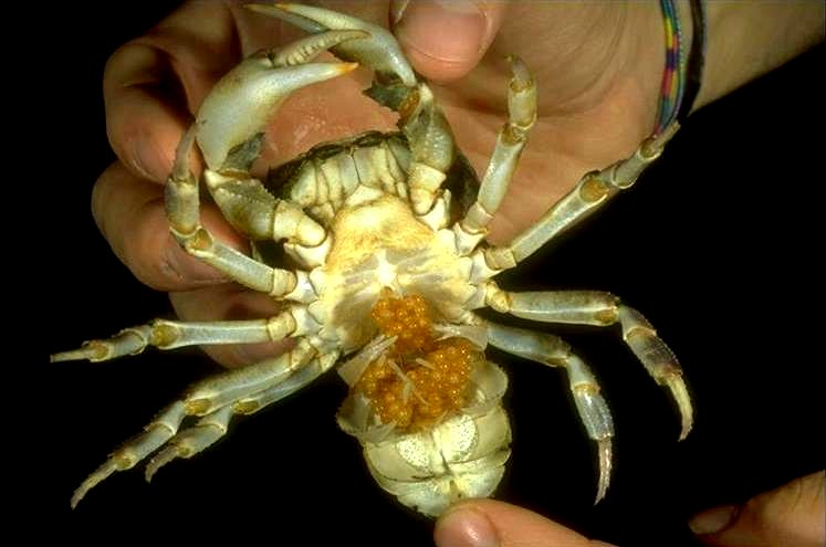 Potamon fluviatile (Herbst, 1785) female with eggs